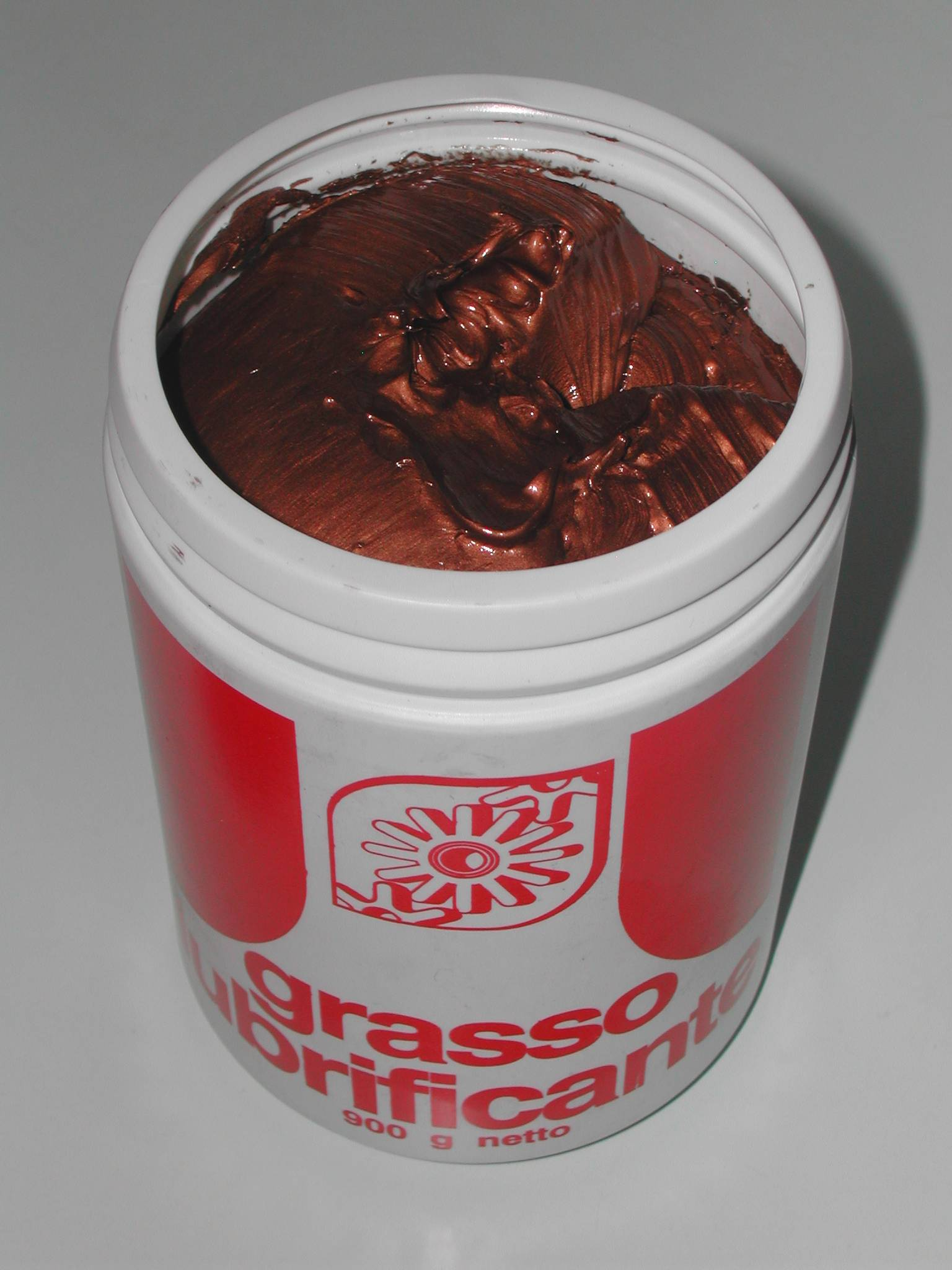 Cuprum lubricant grease